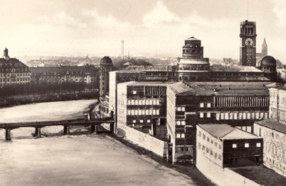 Deutsches Museum München and Lehrerinnen-Bildungsanstalt